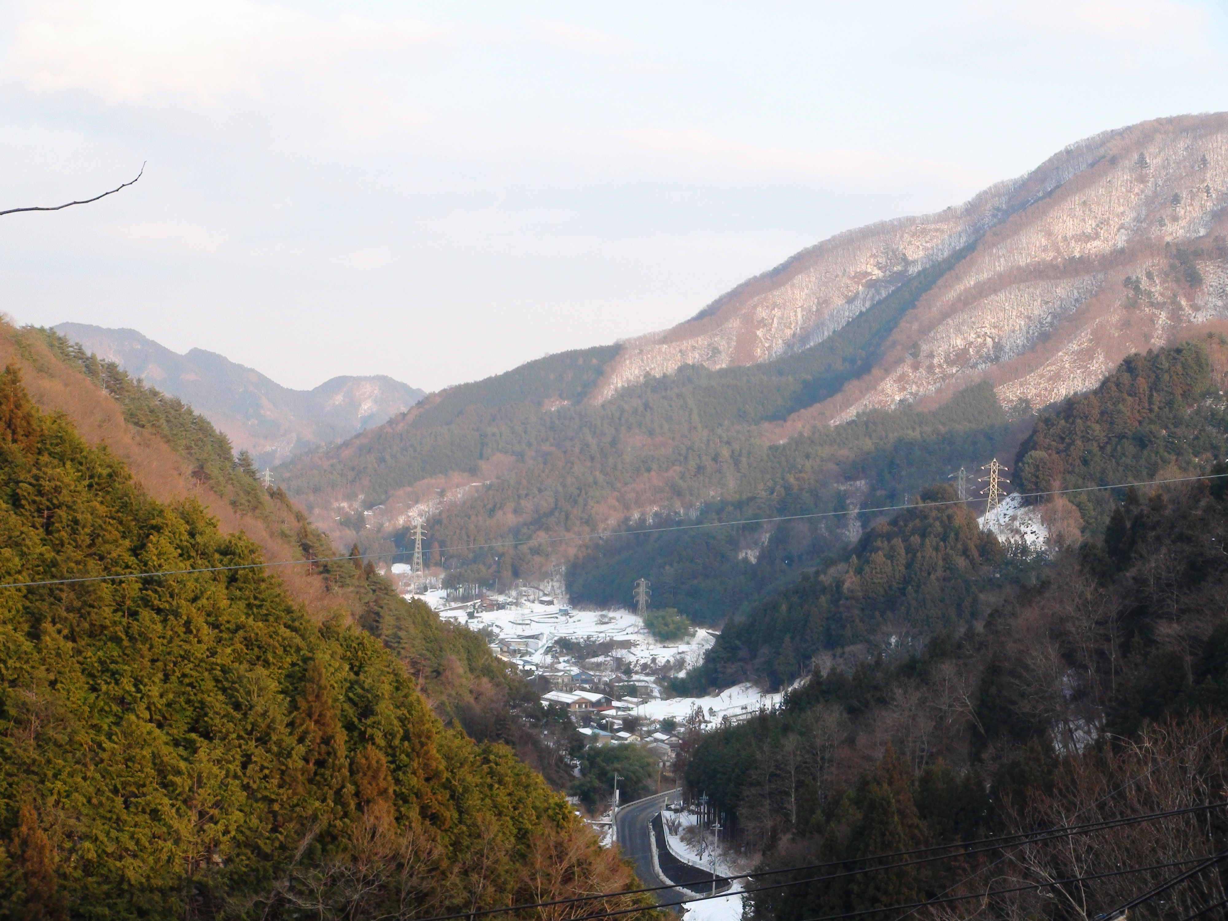 views of the village Mushono Uenohara Yamanashi